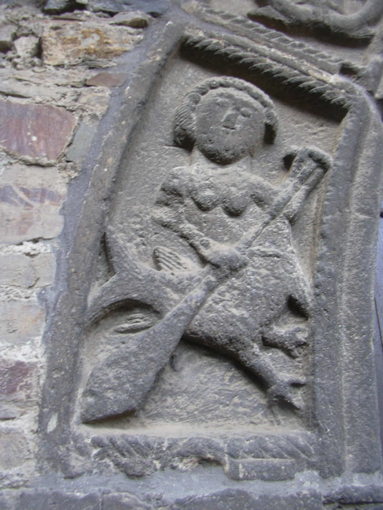 St. Peter and Paul, Remagen: Romanesque parish gate, detail: water nymph with oar, fetching for souls